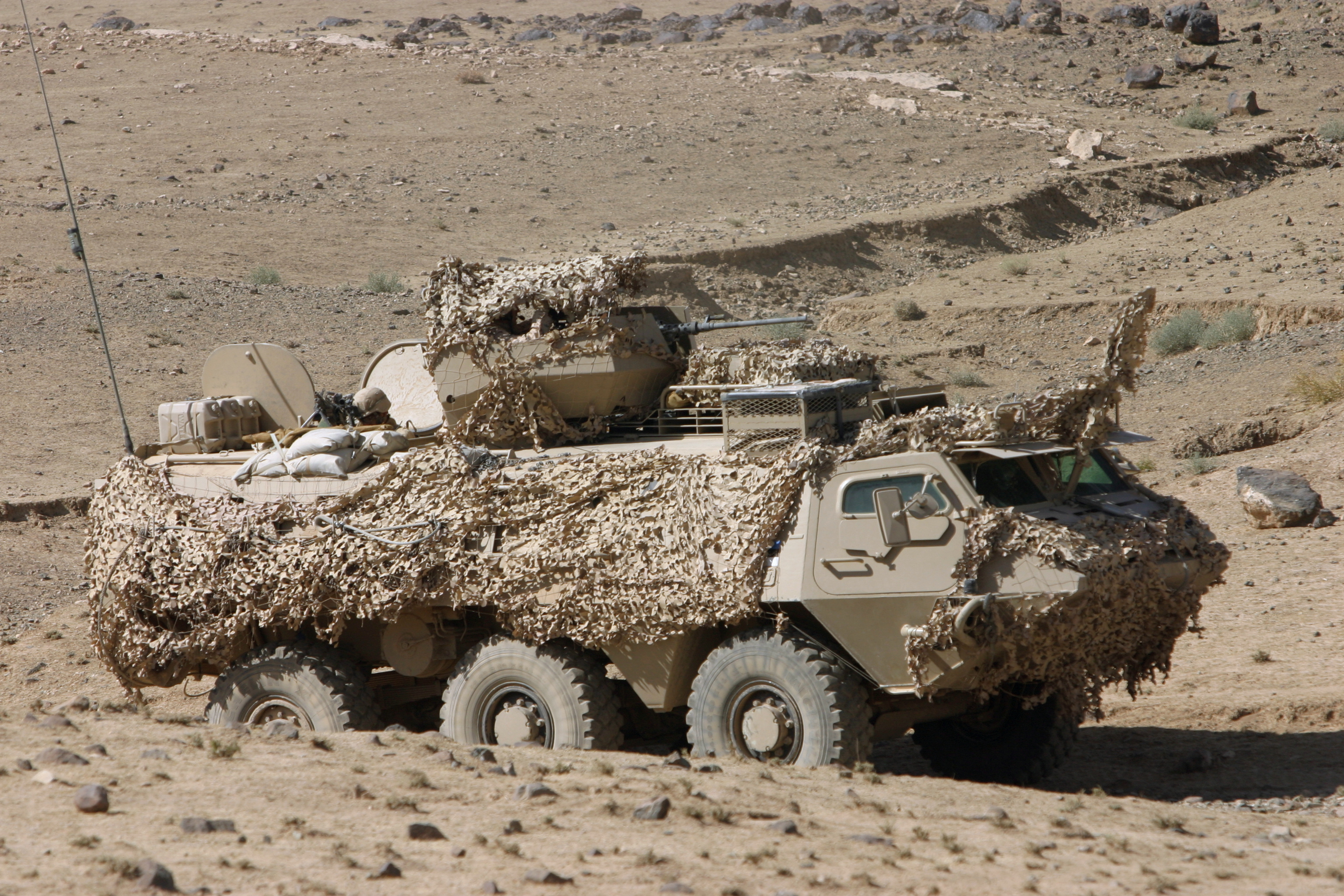 U.S. Marines with Fox Company, 2nd Battalion, 7th Marine Regiment and members of the Estonian Defence Forces use Marine armored personnel carriers to patrol Tor Ghar, Afghanistan, Sept, 22, 2008.